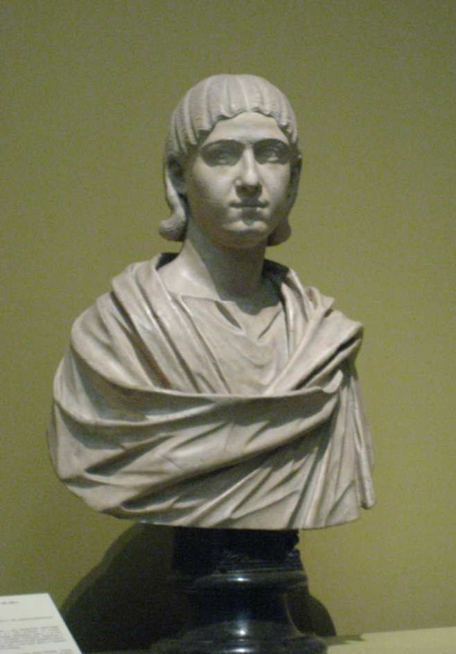 Julia Avita Mamaea. Cast in Pushkin Museum after original in British museum